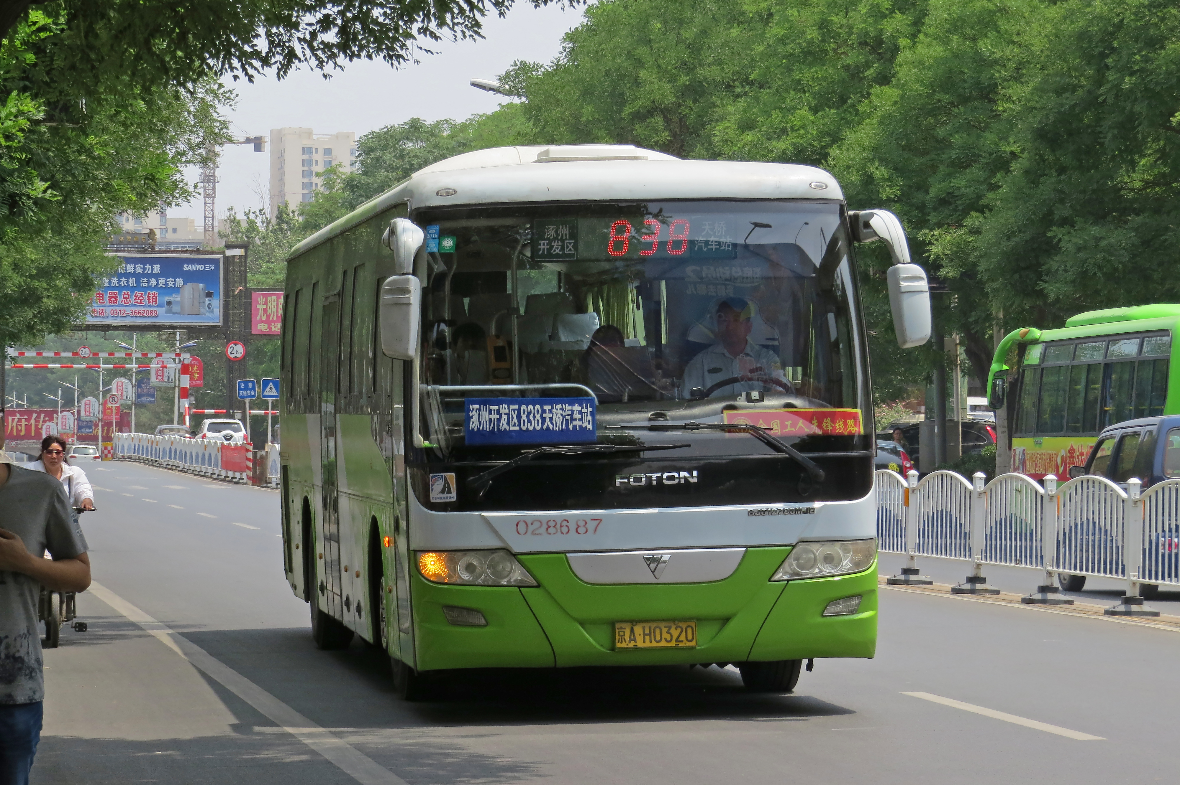 Back to Beijing. I didn't see any geophysics firm, but there is 838.